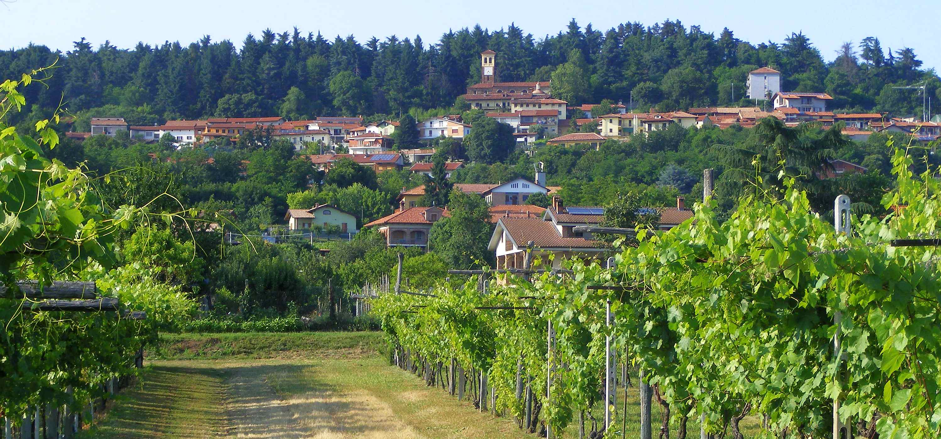 Orio Canavese (TO, Italy): panorama from the South